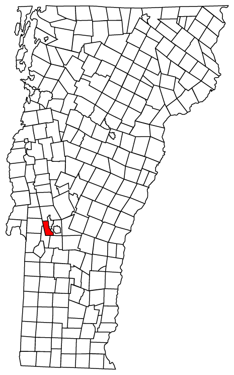 Description: Map of Vermont towns with West Rutland highlighted Source: Map created by Jared C. Benedict on 26 March 2004. Copyright: © Jared C. Benedict.